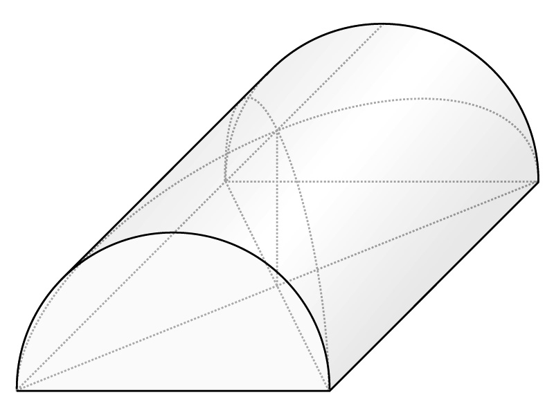 Diagram of barrel vault